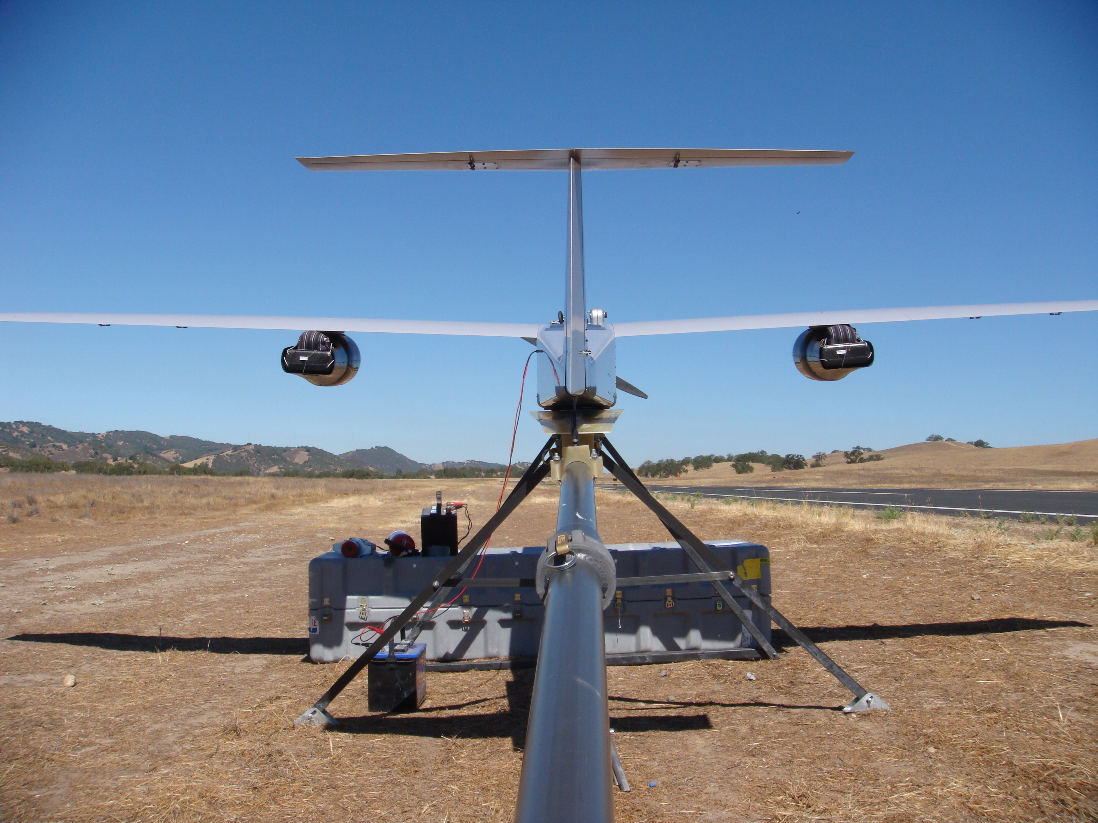 Arcturus T-20 UAV ready to launch at Camp Roberts California. Payload on the wings consist of two guided para foil systems developed by the Naval Postgraduate School.